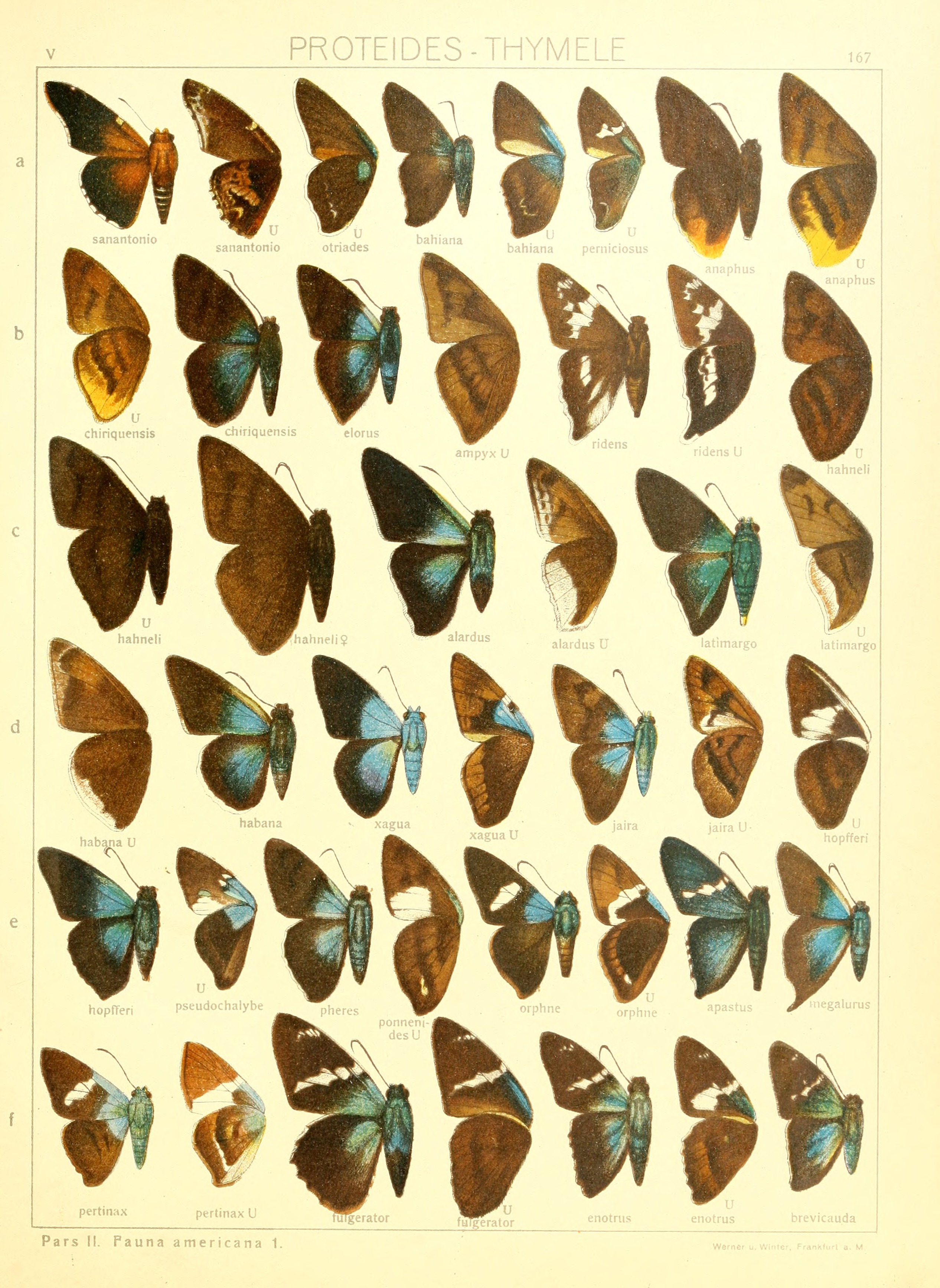 Max Wilhelm Karl Draudt 1924 Family: Hesperiidae in Seitz, A. ed. Plate from Seitz, A. ed. ( 1924) Die Großschmetterlinge der Erde, Verlag Alfred Kernen, Stuttgart Band 5: Abt. 5, Die exotischen Großschmetterlinge, Die Großschmetterlinge des amerikanischen Faunengebietes, The Macrolepidoptera of the world : a systematic account of all the known Macrolepidoptera: The Macrolepidoptera of the American faunistic region.Volume 5 part 5 text online read text See The Global Lepidoptera Names Index for valid names Plate 167 Proteides mercurius sanantonio (Lucas, 1857) Chrysoplectrum otriades (Hewitson, 1867) Chrysoplectrum bahiana (Herrich-Schäffer, 1869) Chrysoplectrum perniciosus (Herrich-Schäffer, 1969) Astraptes anaphus (Cramer, [1777]) Astraptes chiriquensis (Staudinger, 1876) Astraptes elorus Hewitson 1867 Typhedanus ampyx (Godman & Salvin, [1893]) Ridens ridens (Hewitson, 1876) hahneli Staudinger, 1888 synonym for Aethilla memmius Butler, 1870 Astraptes alardus (Stoll, 1790) Astraptes latimargo (Herrich-Schäffer, 1869) Astraptes alardus habana (Lucas, 1857) Cuba Astraptes xagua (Lucas, 1857) Astraptes jaira (Butler, 1870) Astraptes alector hopfferi (Plötz, 1881) pseudochalybe Herrich-Schäffer, 1869 synonym for Chrysoplectrum bahiana (Herrich-Schäffer, 1869) pheres Mabille, 1903 synonym for Astraptes elorus (Hewitson, 1867) ponnenides Draudt, 1922 error for parmenides Cramer and Stoll synonym for Astraptes creteus creteus (Cramer, [1780]) Chrysoplectrum orphne (Plötz, 1881) Astraptes apastus (Cramer, [1777]) Astraptes megalurus (Mabille, 1877) pertinax (preocc) synonym for Chrysoplectrum pervivax (Hübner, [1819]) Astraptes fulgerator Walch, 1775 Astraptes enotrus (Stoll, [1781]) Astraptes brevicauda (Plötz, 1886)